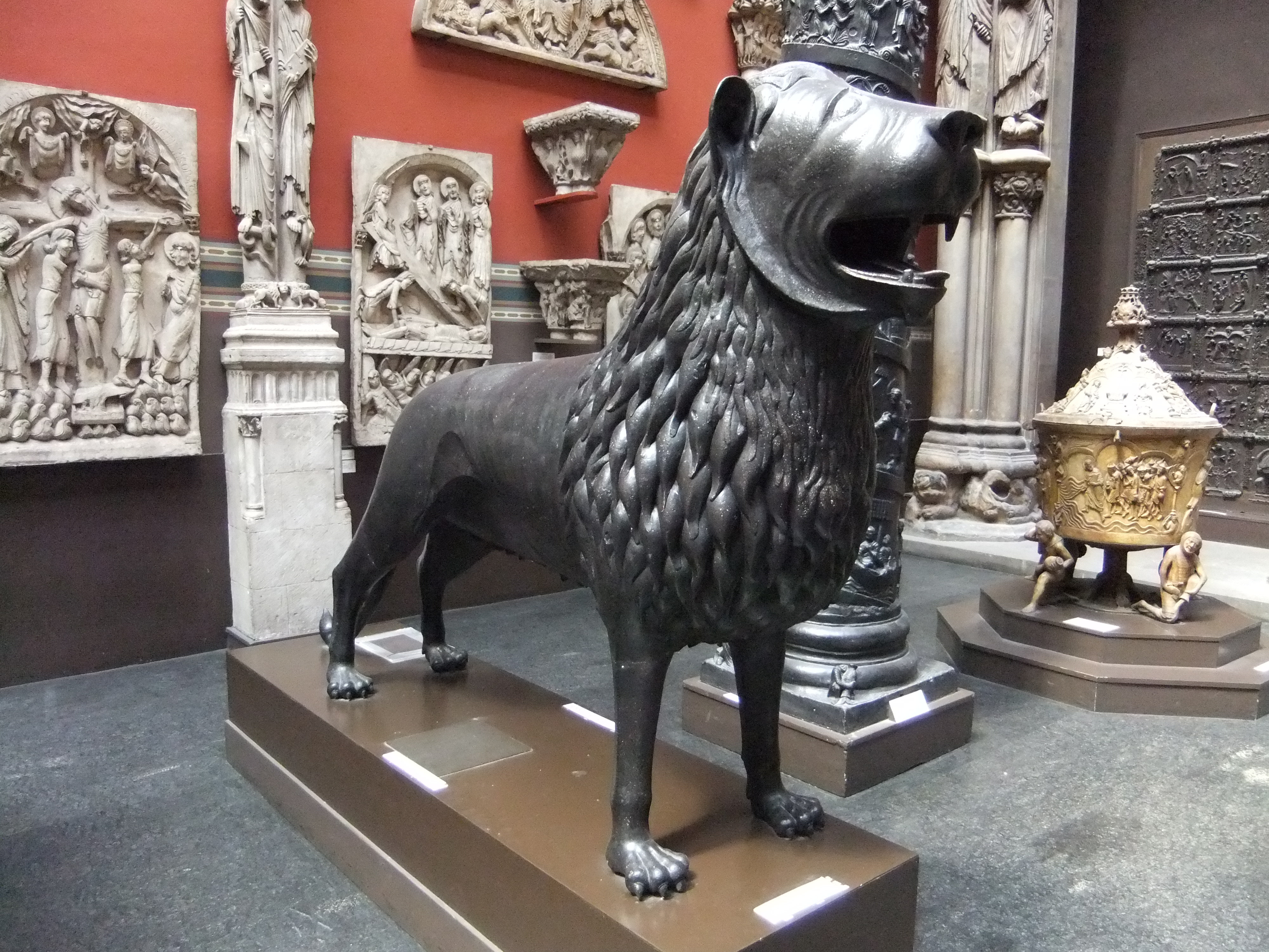 Plaster cast of a bronze statue of a Lion, ca. 1166, from Cathedral Square, Braunschweig, cast by Georg Howaldt, Braunschweig, ca. 1872-3. Victoria & Albert Museum, London. Museum number: REPRO.1873-383, Link